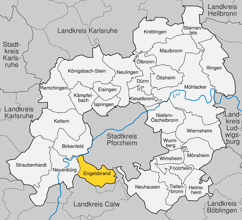 position of Engelsbrand within distict of Enzkreis, Baden-Württemberg, Germany